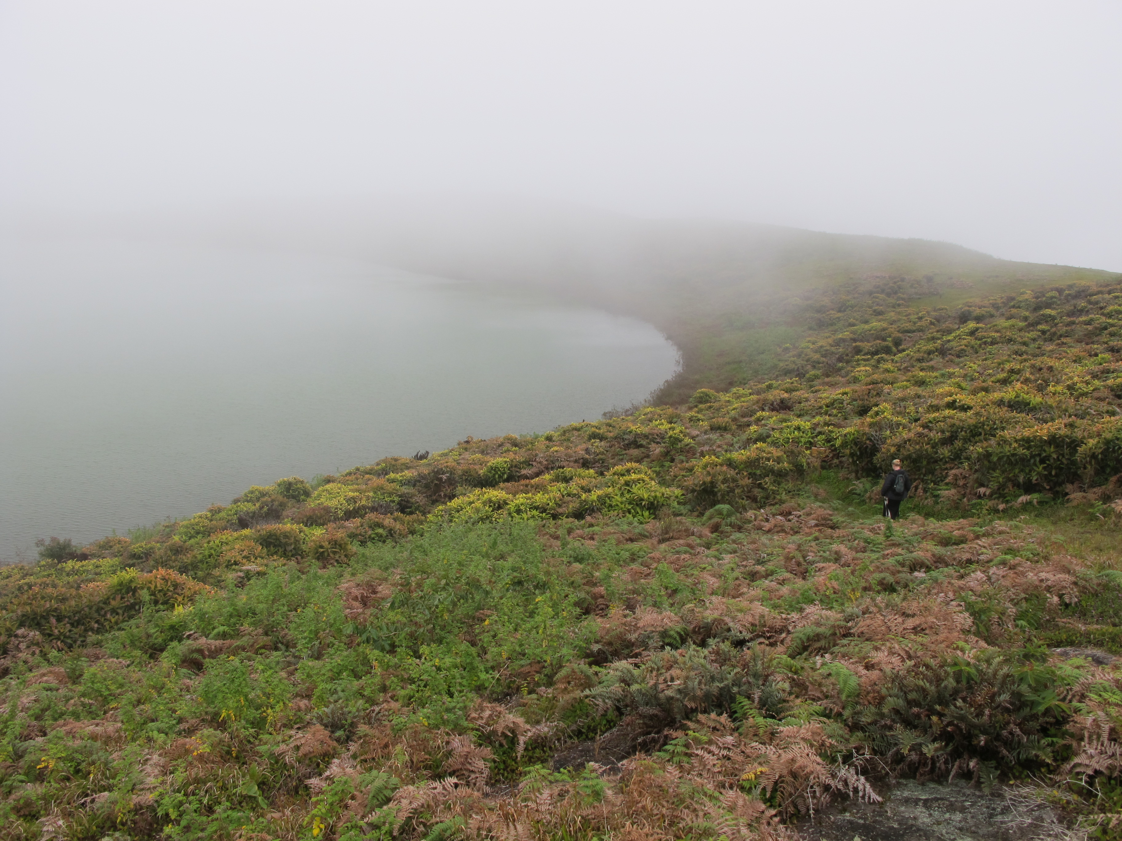 Largest fresh-water reservoir on the islands.